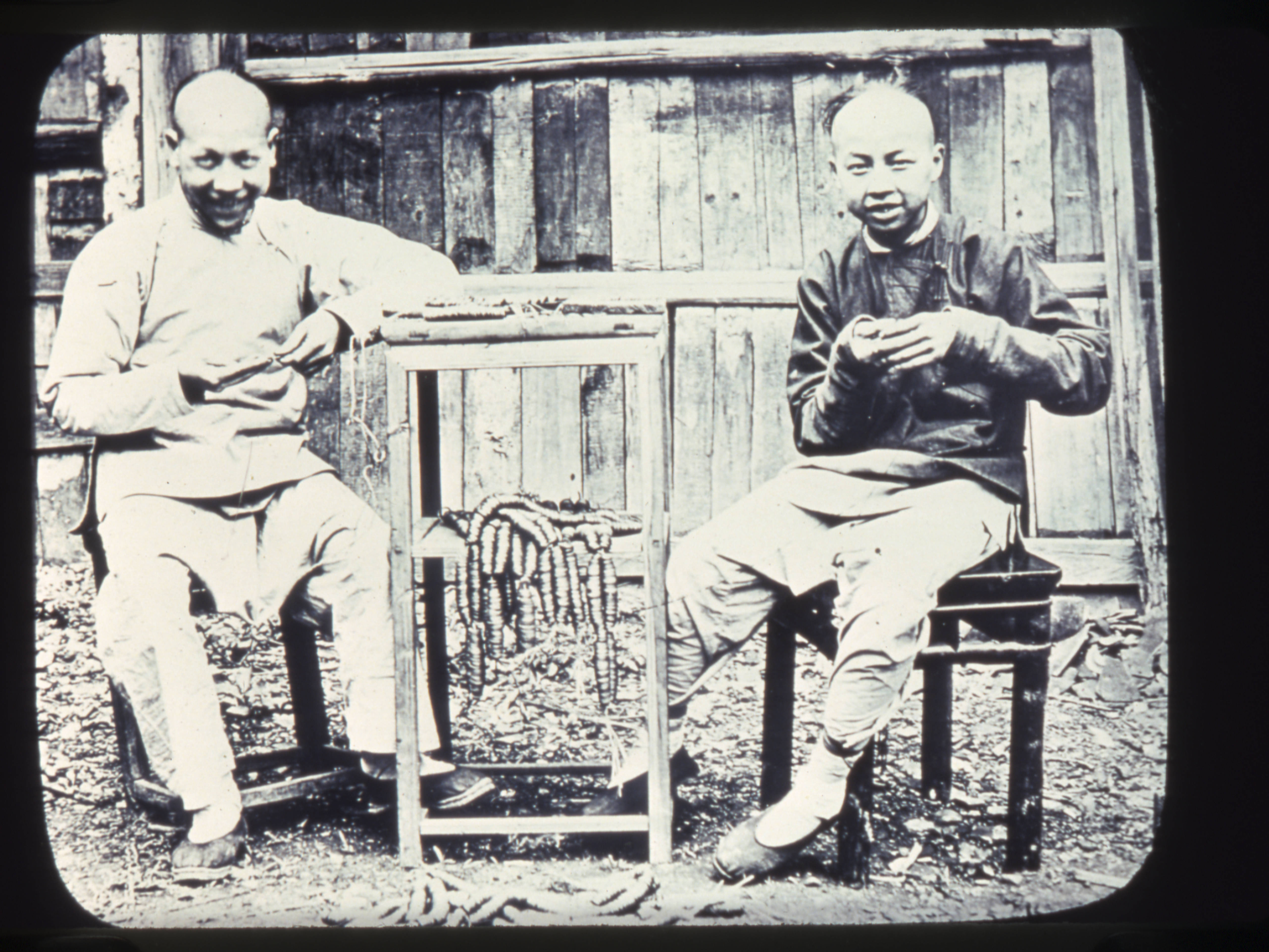 Two men counting brass coins, Changde, Hunan, China, ca.1900-1919 "Counting 'cash' in the days before copper and silver coins were minted. The brass cash had square holes, and were strung in units of 100, ten of which made a 'tiao', the rough equivalent of a dollar. The 2 young men in the photo, Kung and Pao, came with a third, Tai, to OTL [Oliver Tracy Logan] soon after his return in 1901, and asked to be trained in Western medicine. After a sort of apprenticeship in the old hospital, they were sent to medical school, were graduated, and returned to join the staff in Chanteh [now Changde]. Dr. Pao, (right) was with OTL [Oliver Tracy Logan]at the end and was heartbroken that he could not save him."; Captions for this set of lantern slides from the papers of Oliver and Jennie Logan, American Presbyterian missionaries in Hunan, were provided by their daughter Elsa. Subject (aat): group portraits Photographer: Unidentified Filename: IMP-YDS-RG008-358-0008-0004 Geographic subject: Hunan; China Subject (unesco): Medical personnel Part of collection: International Mission Photography Archive, ca.1860-ca.1960 Type: images Part of subcollection: Photographs from the Yale Divinity School Library, New Haven, Connecticut, ca.1880-1950 Part of repository: Yale Divinity Library Special Collections Repository name: Yale University. Divinity School. Day Missions Library Format: lantern slides Archival file: impa_Volume288/IMP-YDS-RG008-358-0008-0004.tiff Repository address: Yale University Divinity School Library, 409 Prospect Street, New Haven, CT 06511 Part of series: Oliver and Jennie Logan Papers Repository Date created: 1900/1919 Publisher (of the digital version): University of Southern California. Libraries Format (aat): photographs Legacy record ID: impa-m66077 Access conditions: Coverage date: 1900/1919